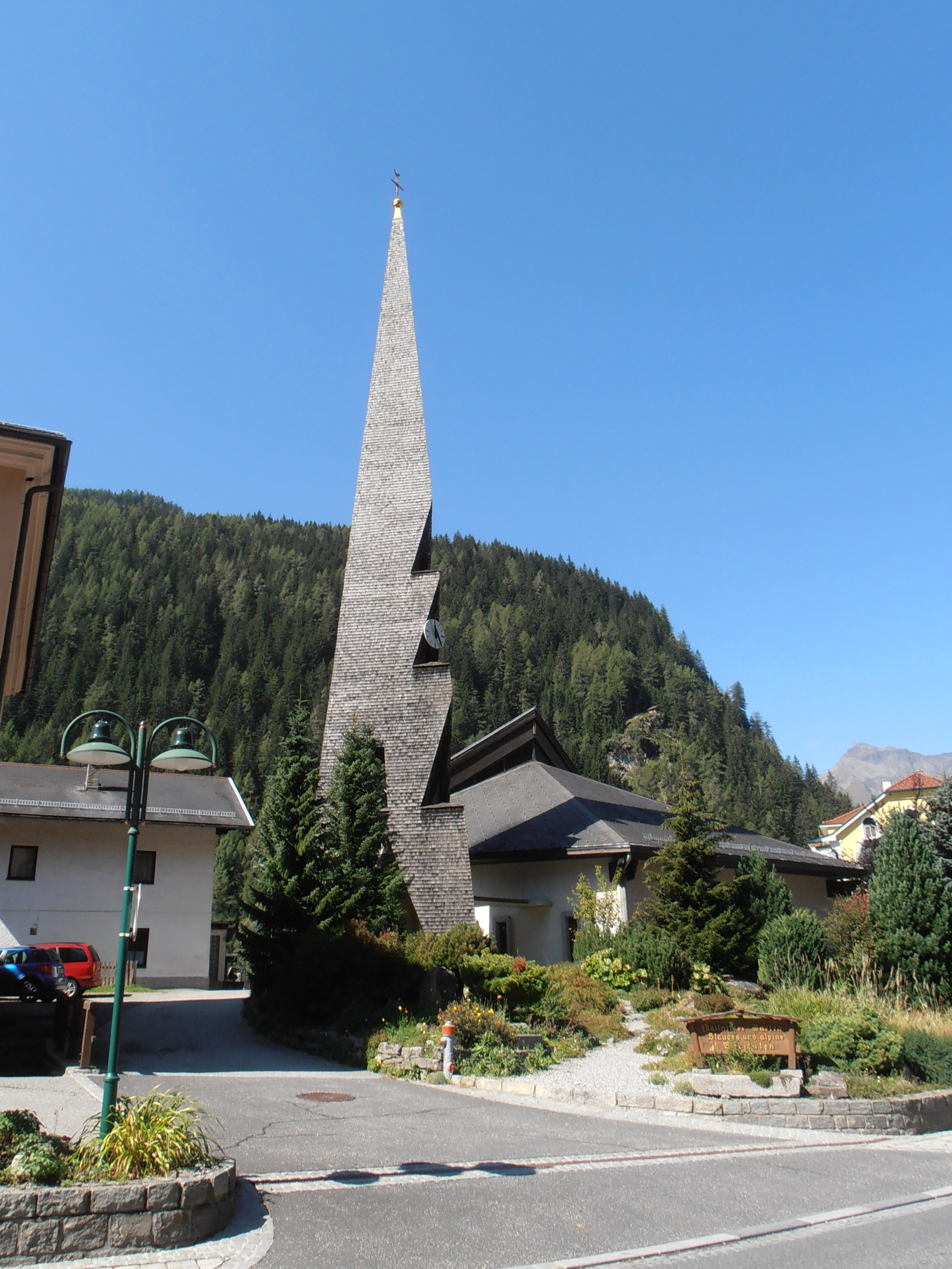 Catholic parish church in Mallnitz (Christkönigskirche).